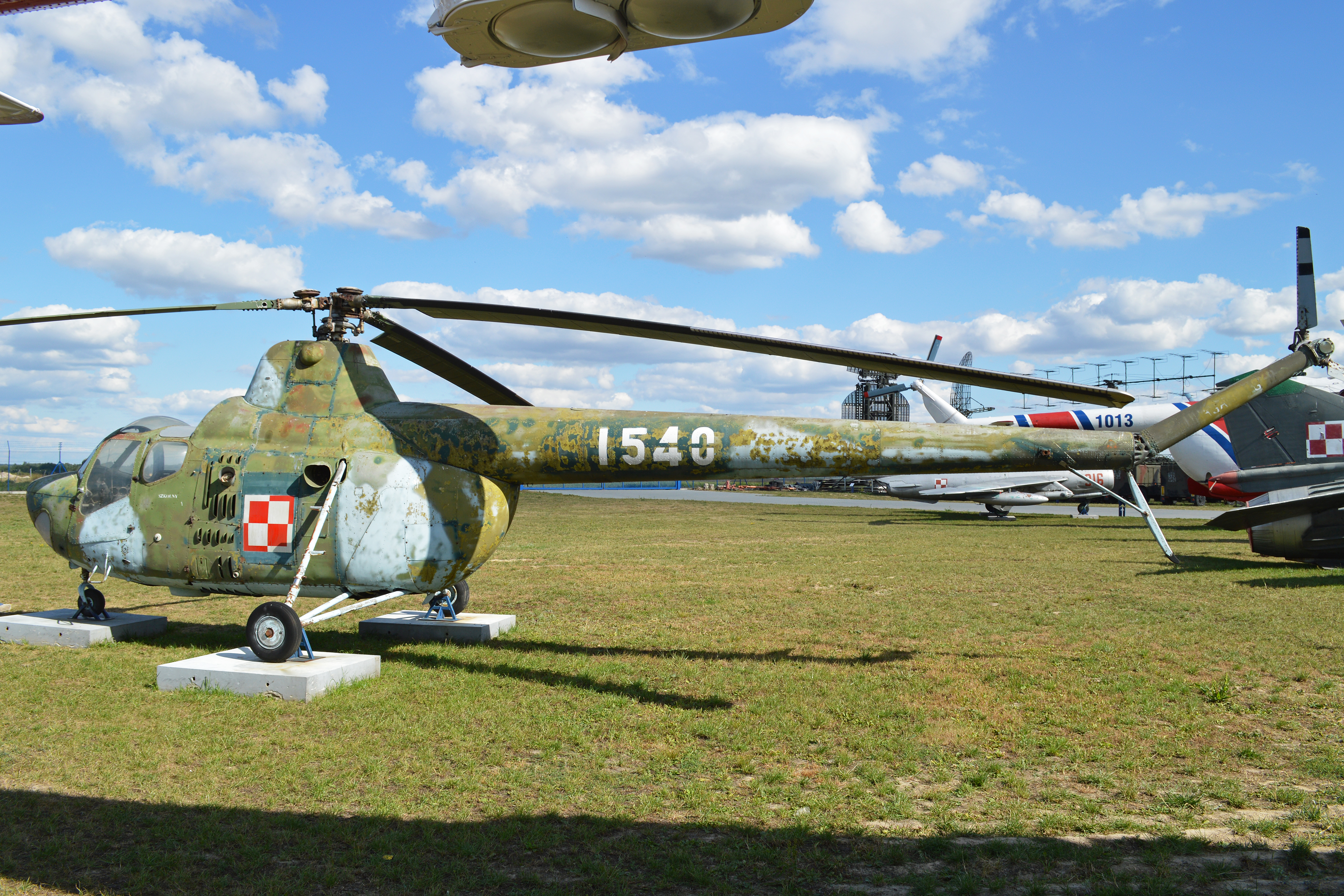 The SM-1 was a Polish built Mil-1 'Hare'. The '/300' was the initial Polish production version, powered by a LiT-3 radial piston engine. Actual serial '5005'. c/n S115005. On display at the Muzeum Sit Powietrznych. Deblin, Poland. 25-8-2013